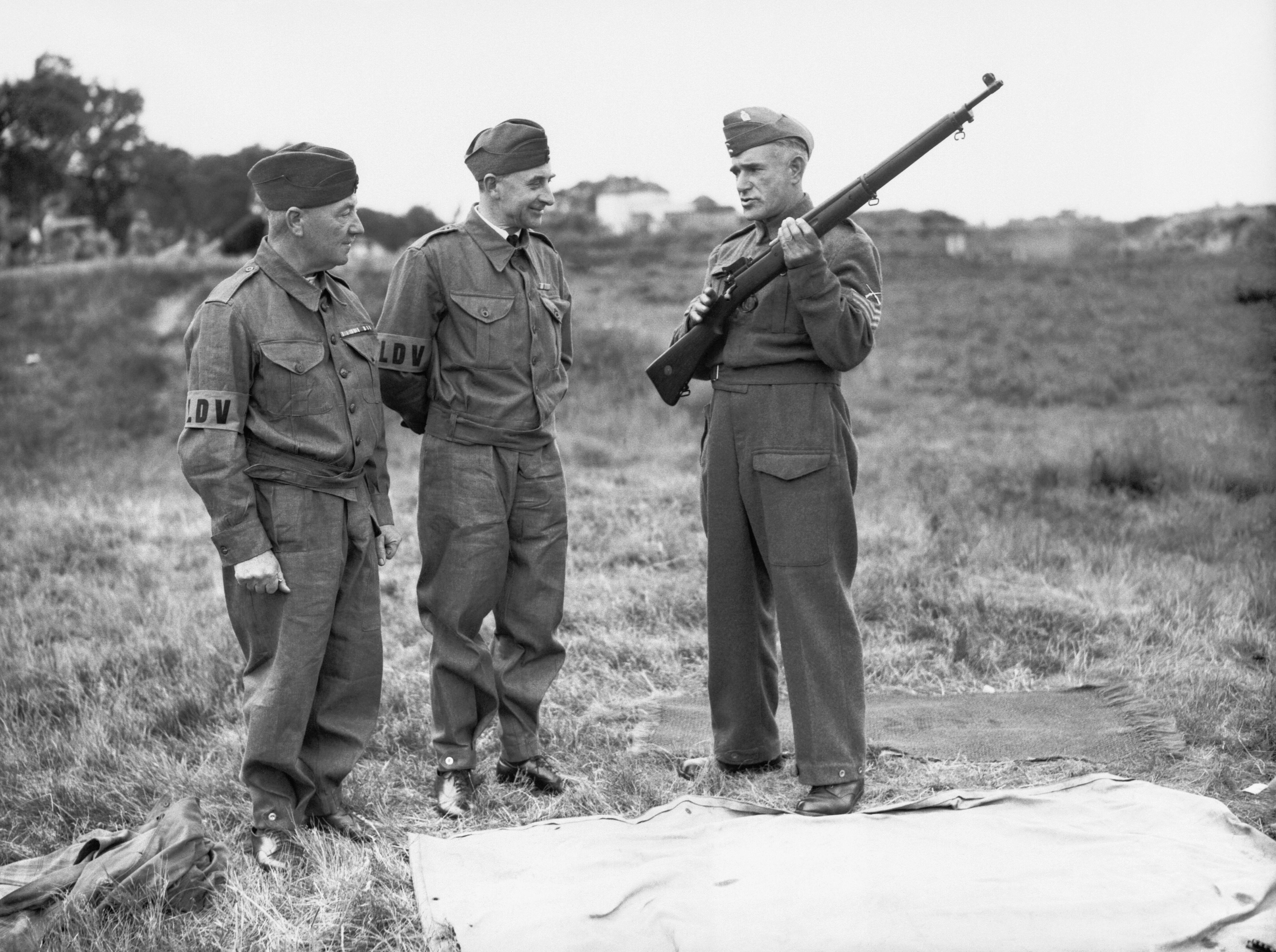 The Home Guard 1939-1945 Local Defence Volunteers: A sergeant instructor explaining the working of a rifle to two members of the Local Defence Volunteers at Bisley range.